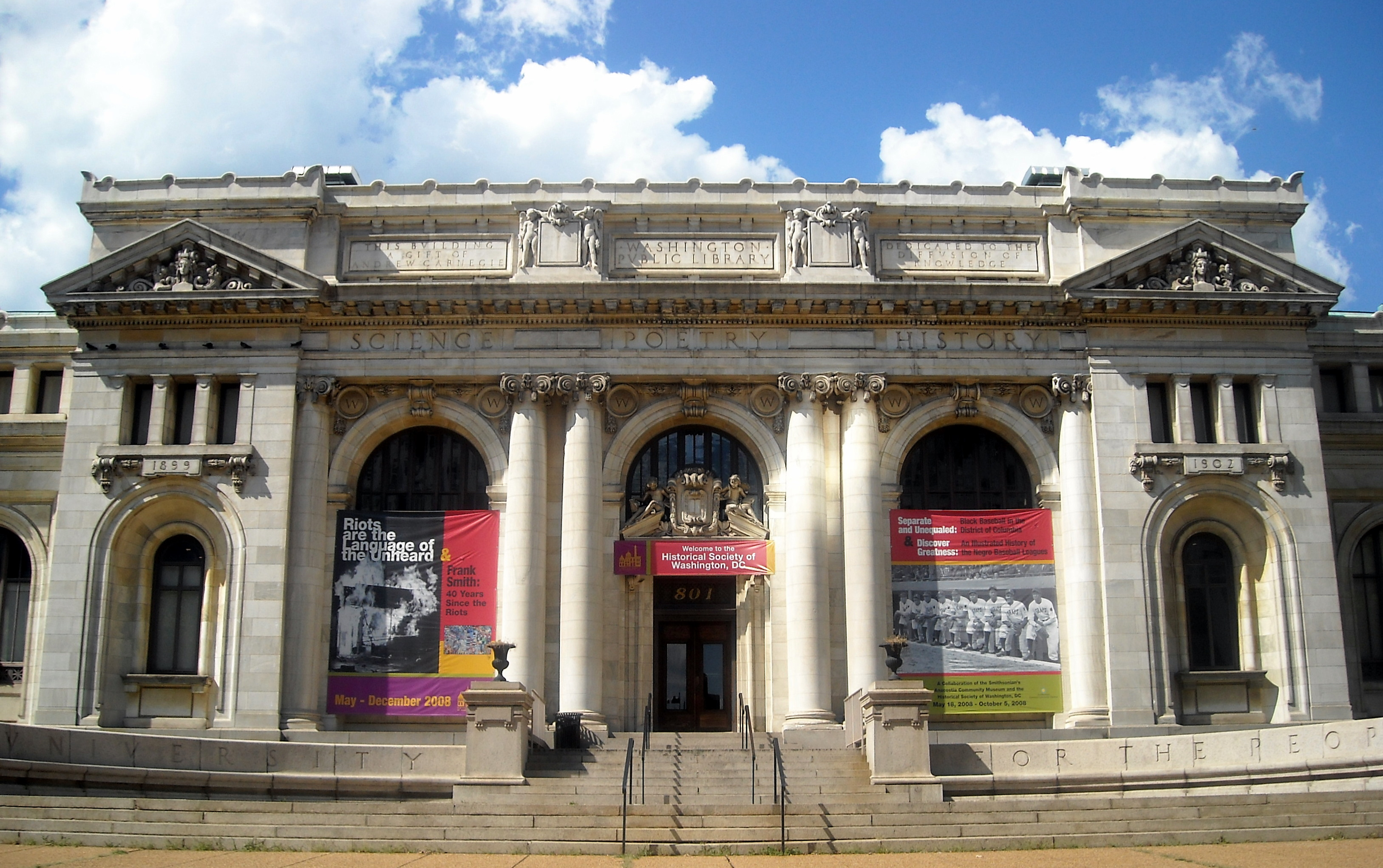 The Old Central Public Library and City Museum in the Mount Vernon neighborhood of Washington, D.C.